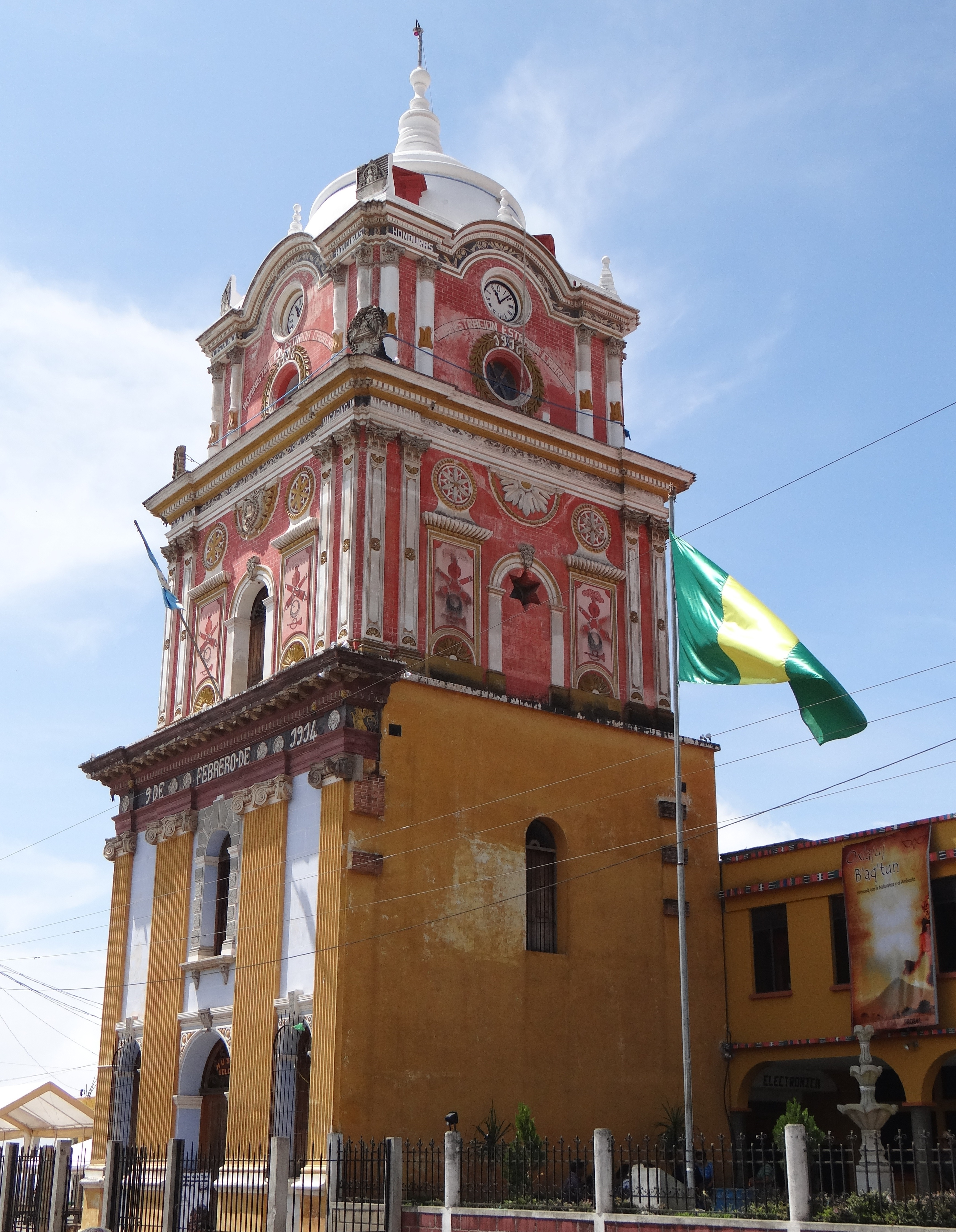 Torre Centroamericana, also known as the Old City Hall, Sololá, Sololá, Guatemala